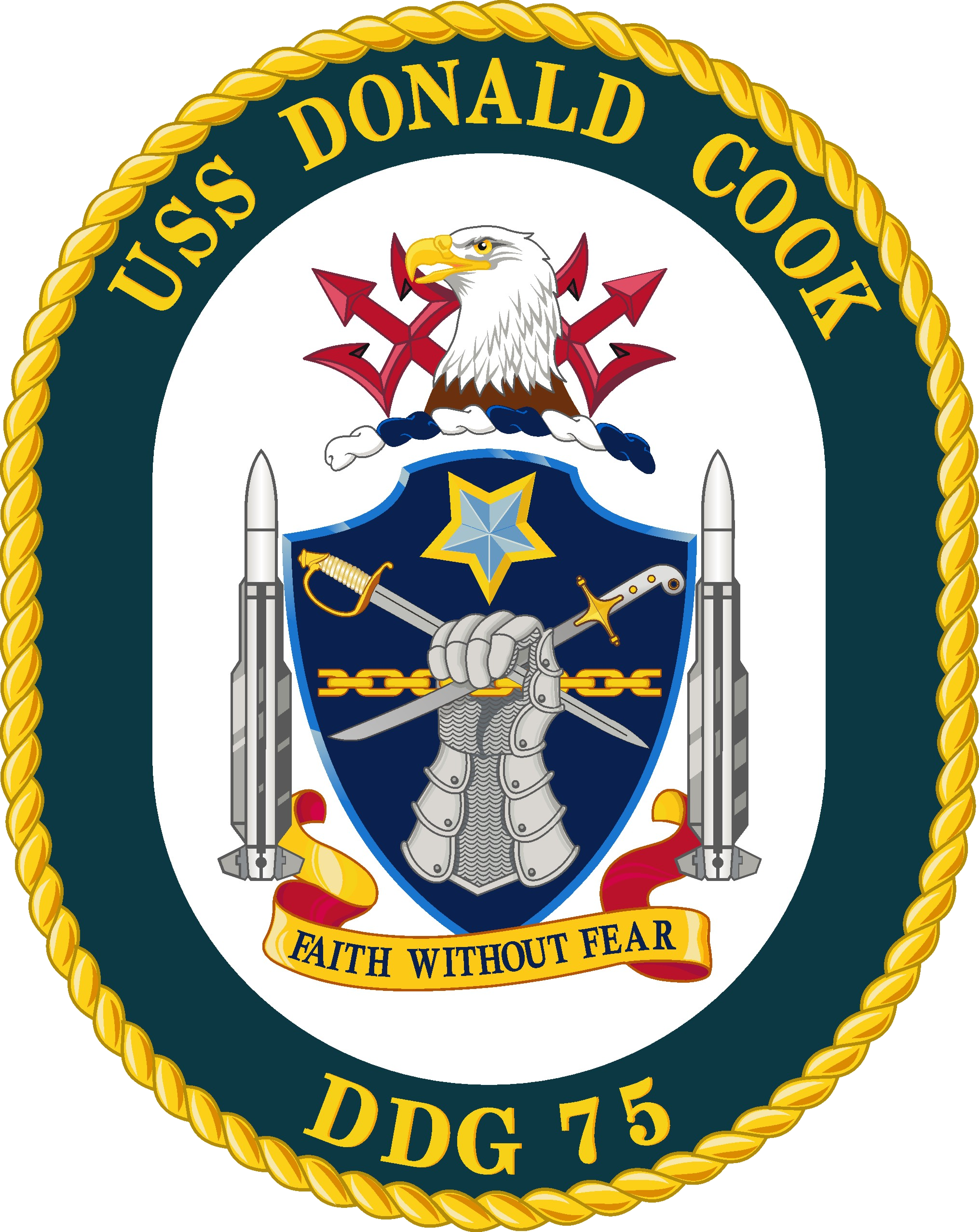 Emblem of the USS Donald Cook (DDG-75)